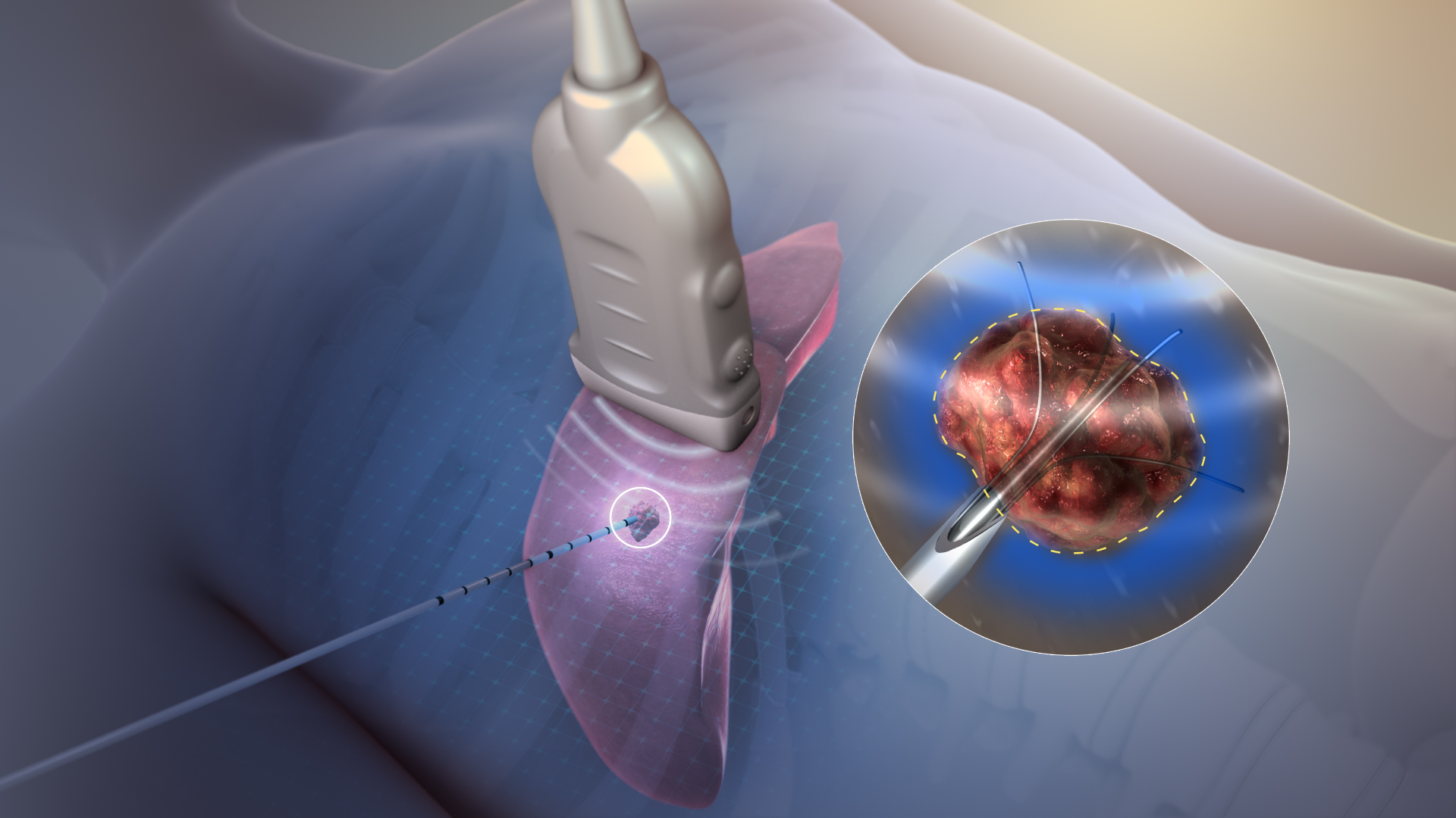 An electric current produced by radiofrequency ablates the tumor.